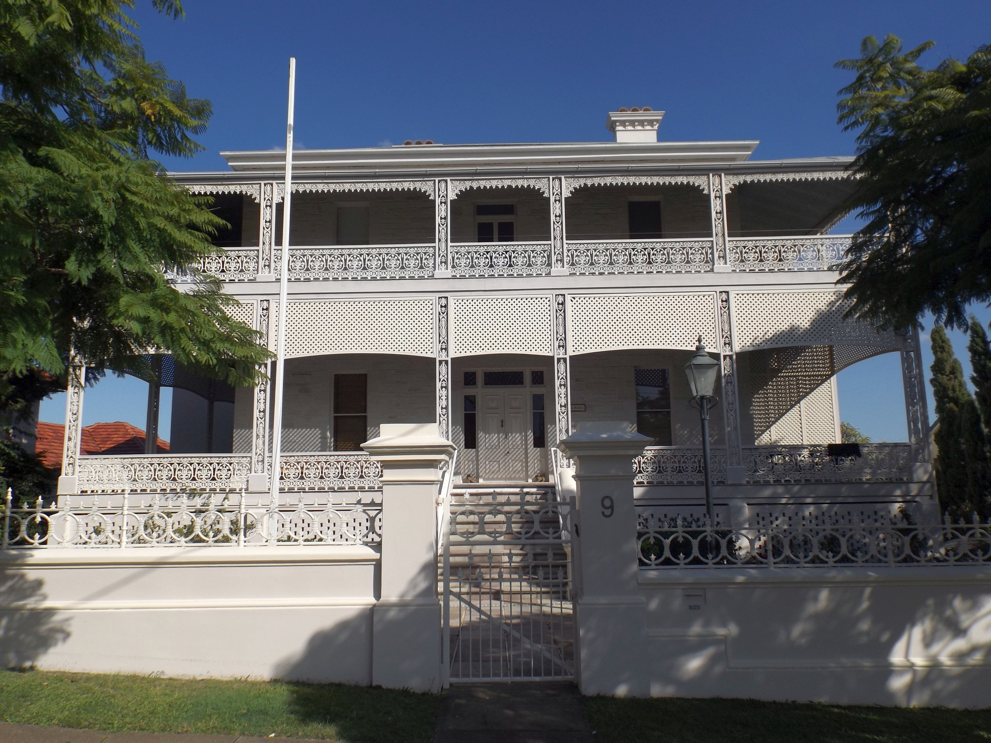 Photo of Palma Rosa residence at Hamilton, Brisbane, Queensland, Australia.